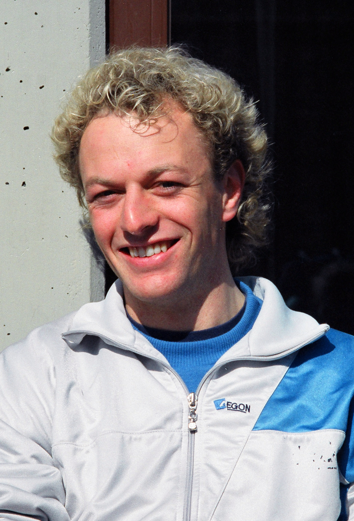 Gerard Kemkers is a former speedskater and current coach from the Netherlands